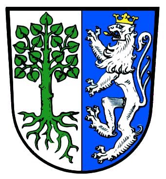 Coat of arms of the municipality of Biessenhofen